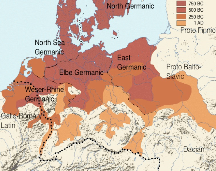 Germanic dialects around 1 AD